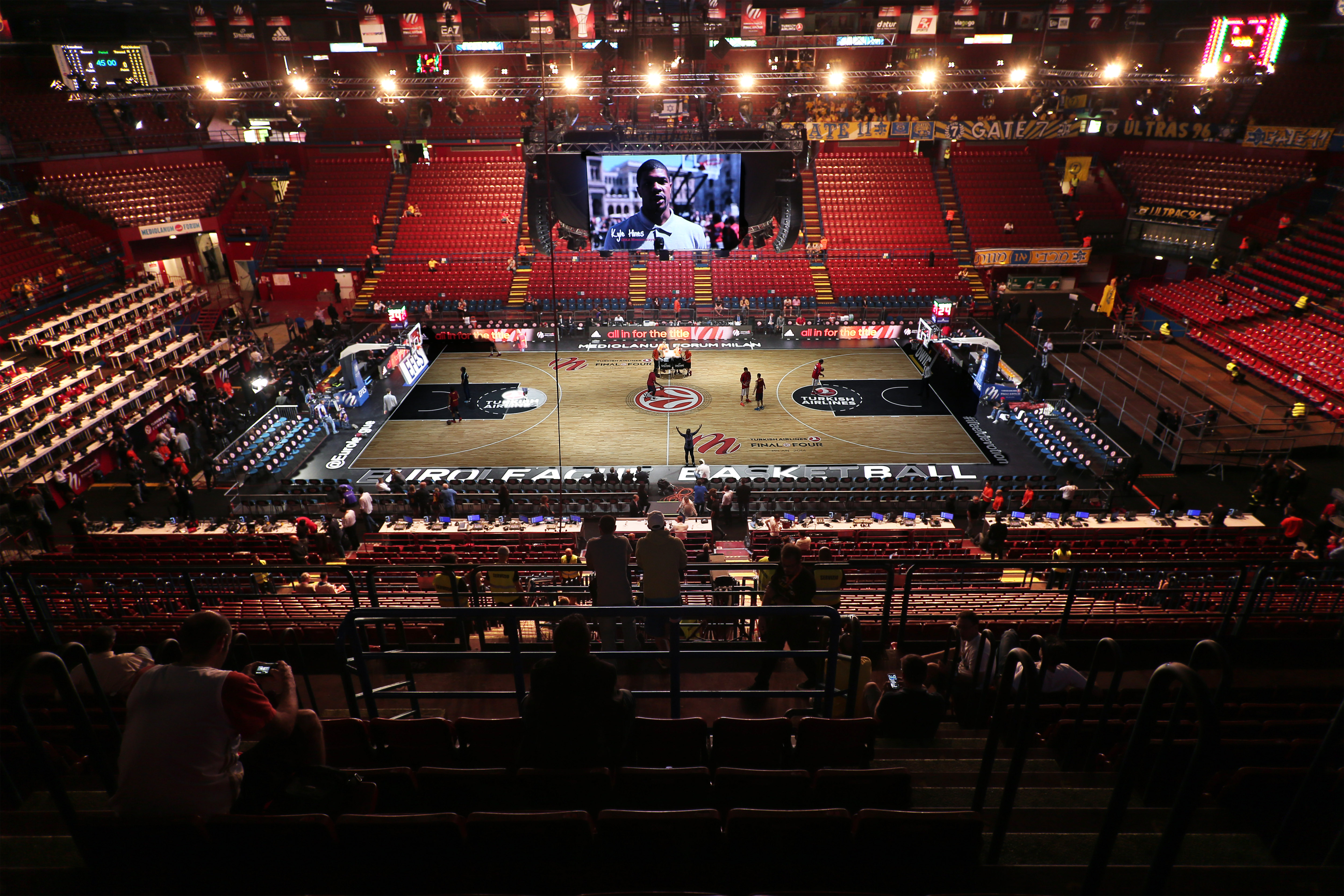 Forum di Assago during staging for the Euroleague Final Four 2014.